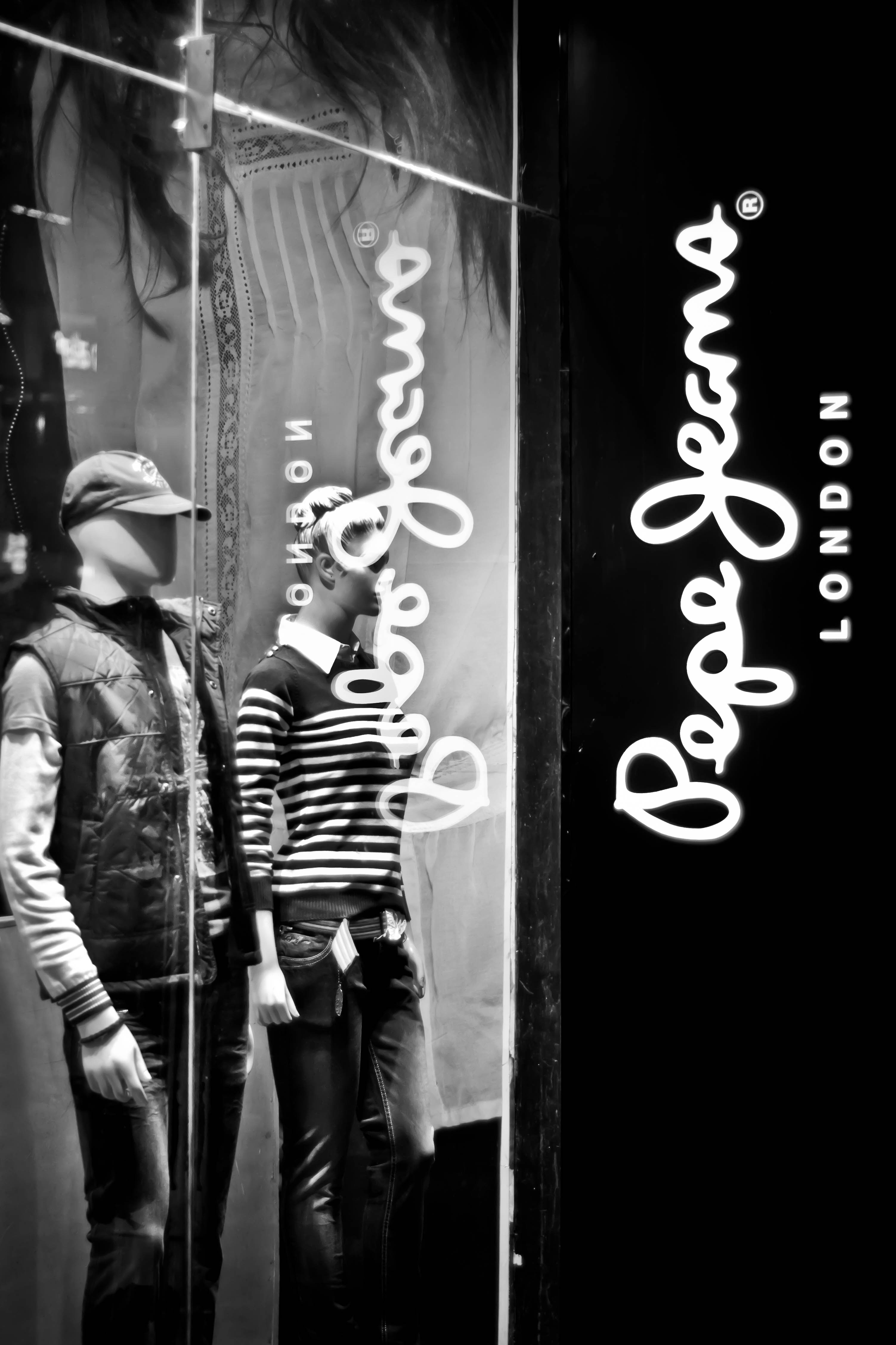 The Pepe Jeans show room at Brigade Road (Bangalore)